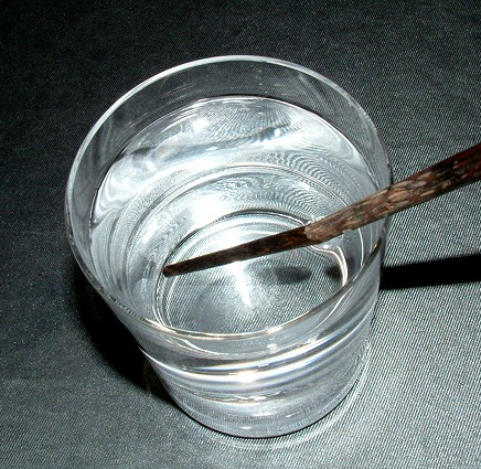 Refraction 2: stick in air and water.